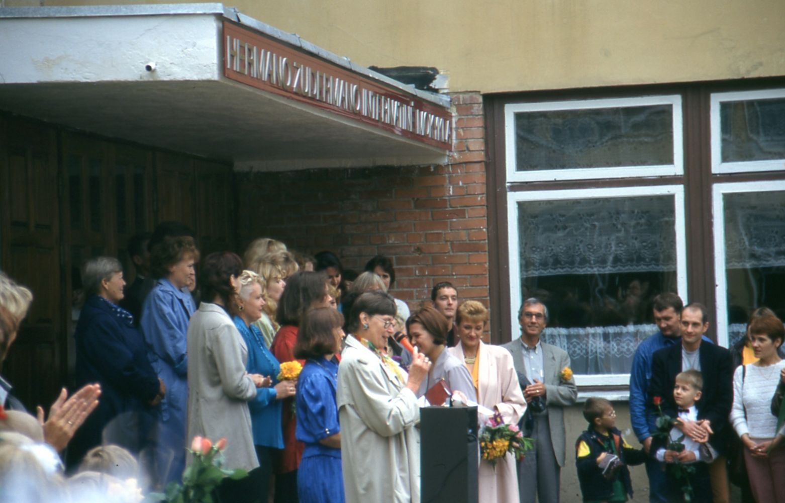 Start of the new school year at Klaipėdos Hermano Zudermano vidurinė mokykla in Klaipeda, Lithuania; schoolmistress A.Klitienė speaking